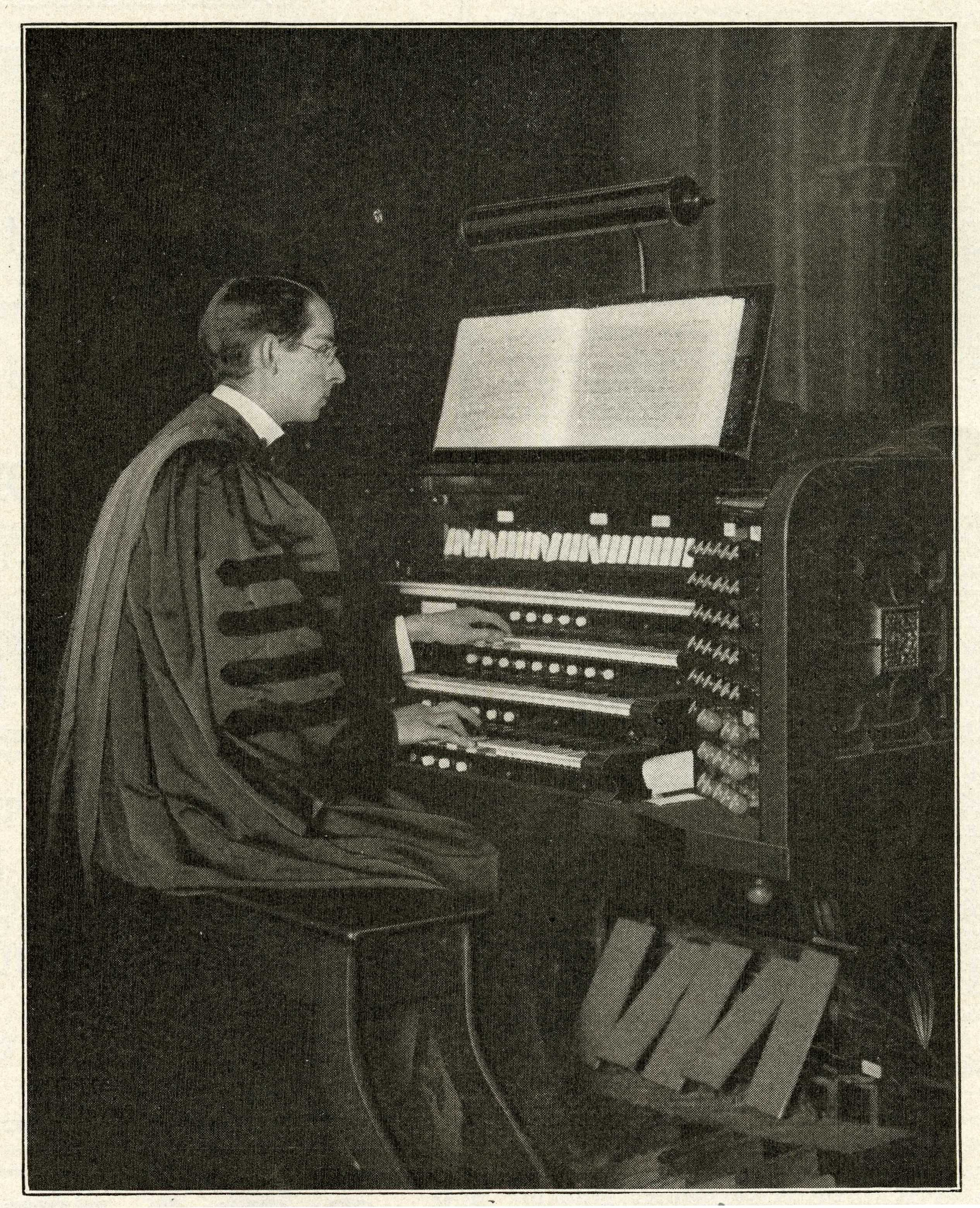 American organist Edwin Arthur Kraft at the console of the organ in Trinity Cathedral, Cleveland, Ohio.